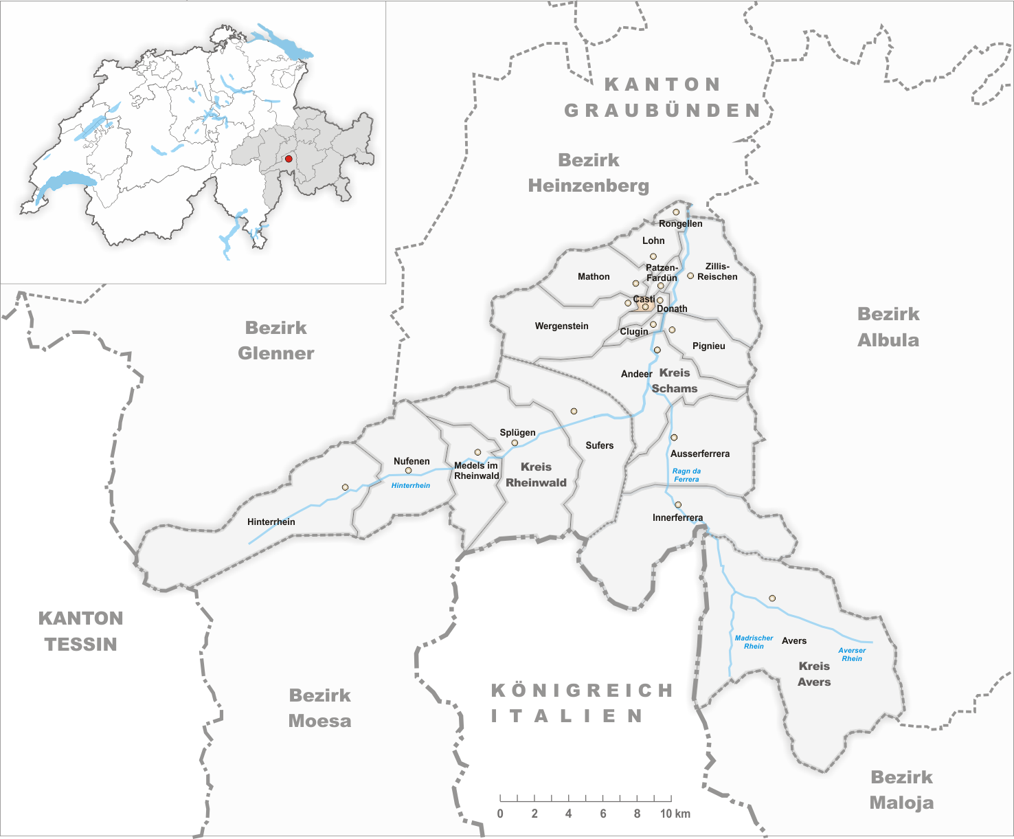 Municipality Casti Artist: Tschubby